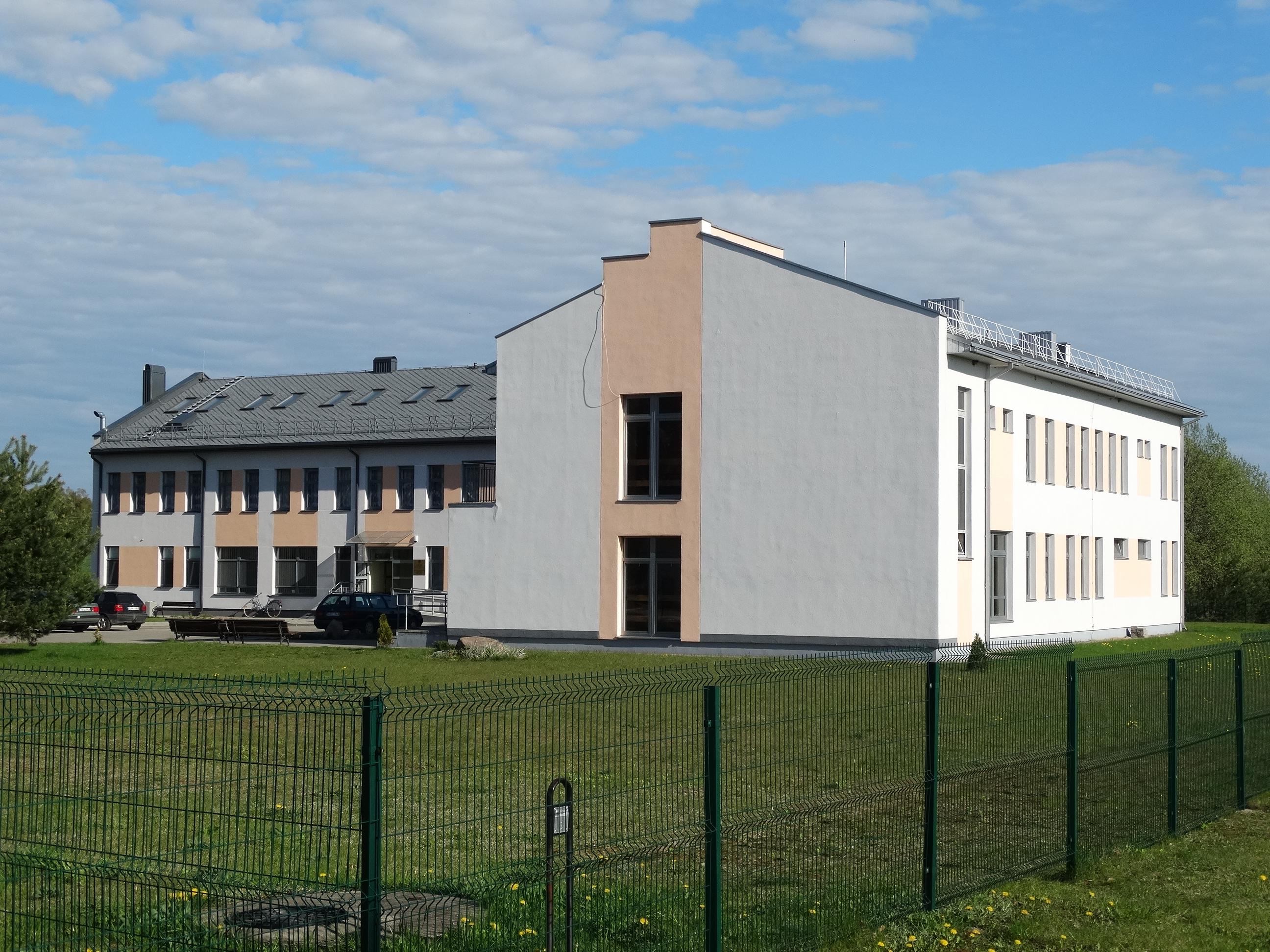 Čiužiakampis, senior care home, Šalčininkai District, Lithuania